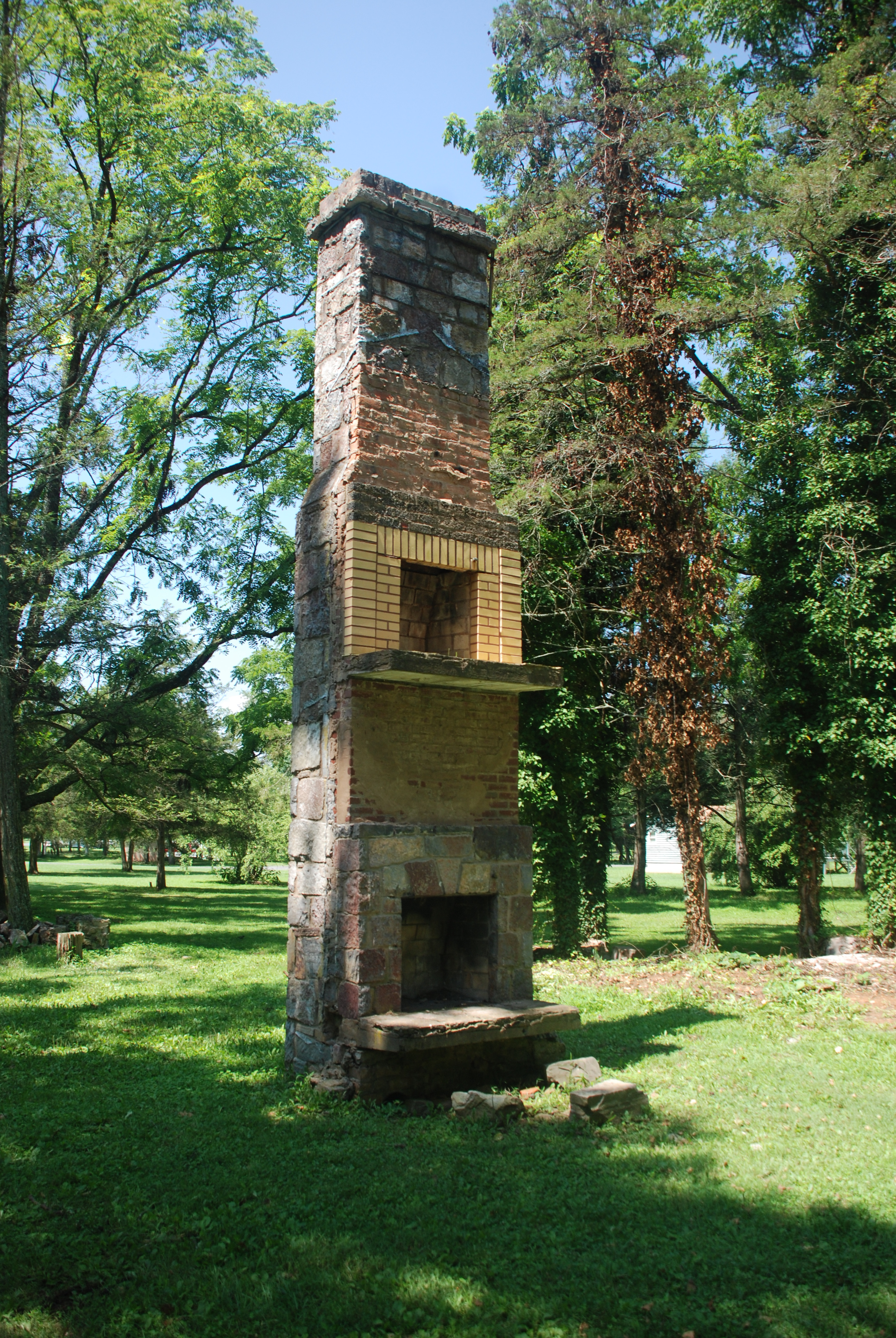 Remnants of a house in Natural Chimneys Regional Park in Augusta County, Virginia.